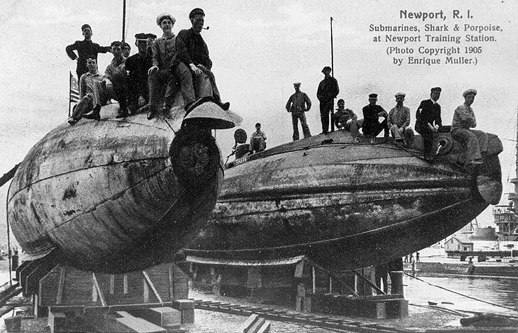 USS Shark (Submarine # 8), at left, and USS Porpoise (Submarine # 7) On cradles, with crewmen posing on deck, circa 1905. Photograph by Enrique Muller, published on a contemporary postal card. Though the original postcard states that the view was taken at the Newport Training Station, Rhode Island, it was actually photographed at the New York Navy Yard. Courtesy Charles L. Price, Jr., Alexandria, Virginia, 1970. U.S. Naval Historical Center Photograph.